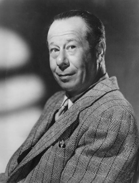 Publicity photo of American entertainer, Bert Lahr, circa 1940s. (Note: Earliest record of publication found for an alternate image from the same photo-session (see bottom image of original upload) is dated 1948. However, it remains unclear if this can be interpreted as an indication of the year the image was first created.)